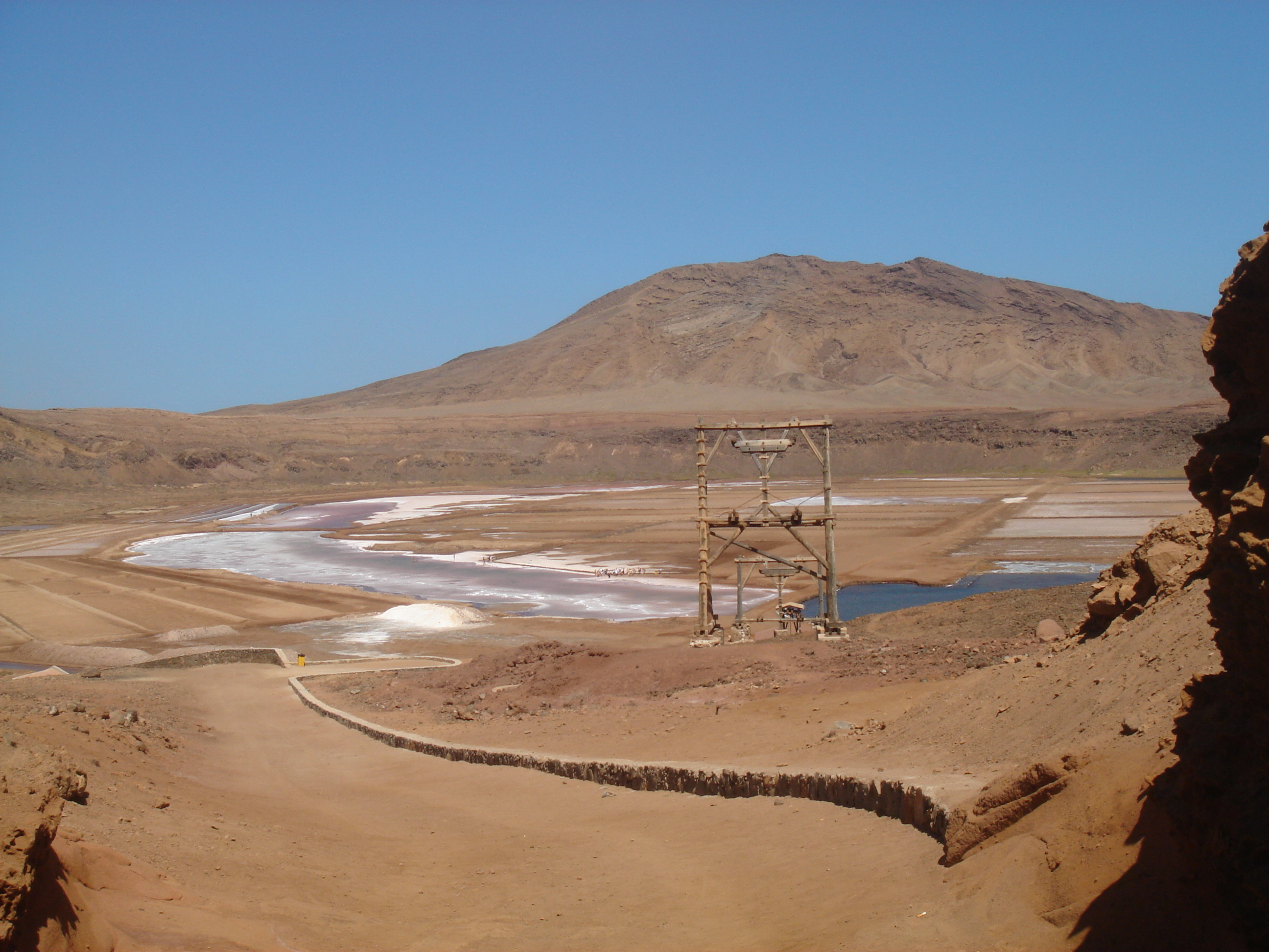 Picture of salt mines in Pedra de Lume, Sal island (Cape Verde).